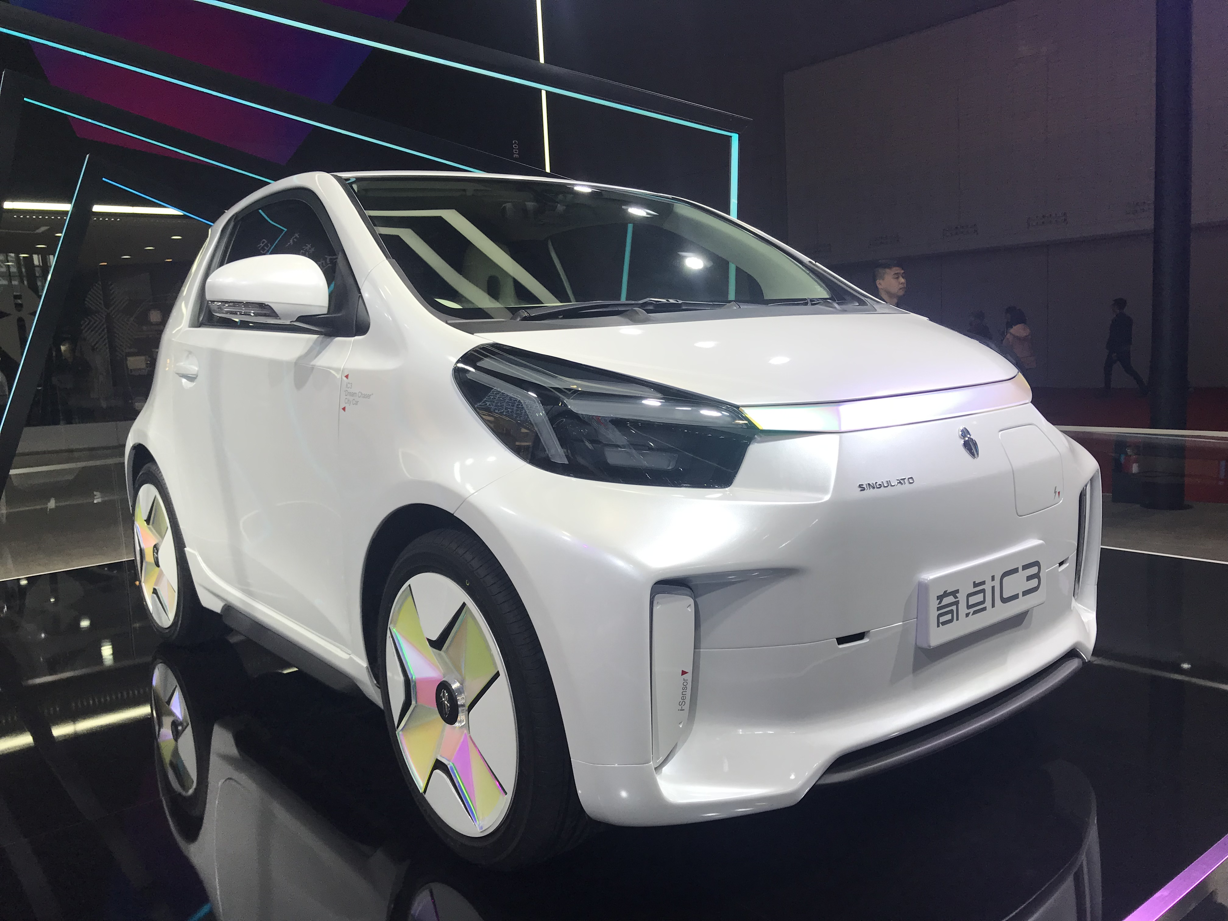 Singulato iC3 front